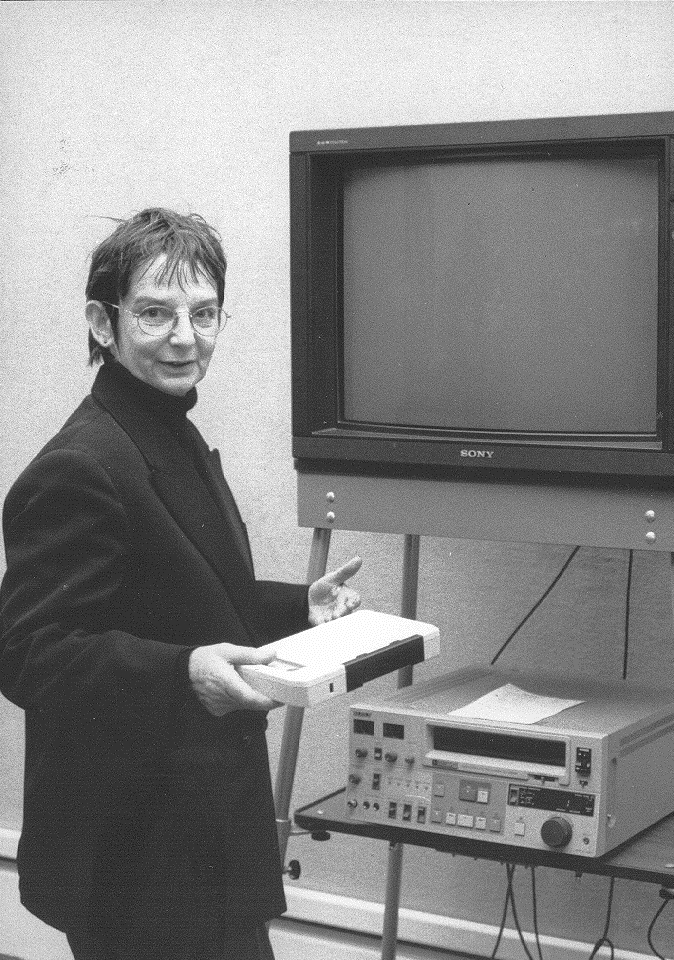 Nan Hoover in the Video Studio of the Art Academy, Dusseldorf (Archive with Collections of the Art Academy, Dusseldorf), about 1991. Photographer unknown © Courtesy of the Nan Hoover Foundation